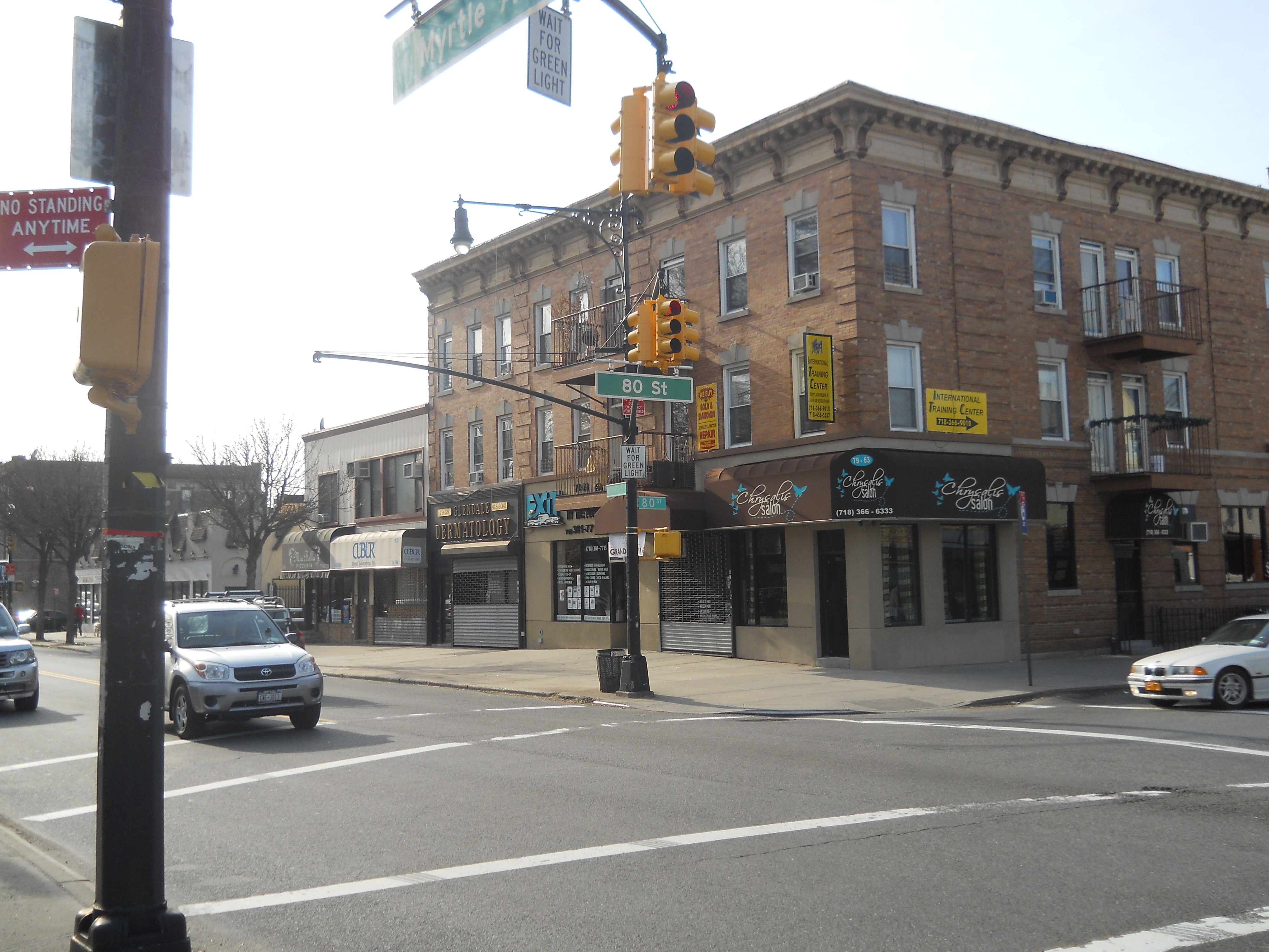 Myrtle Avenue at 80 Street in Glendale, Queens NY.